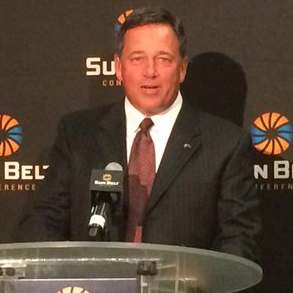 Todd Berry, head coach of the ULM Warhawks football team, at the 2015 Sun Belt Conference Media Day in the Mercedes-Benz Superdome in New Orleans.